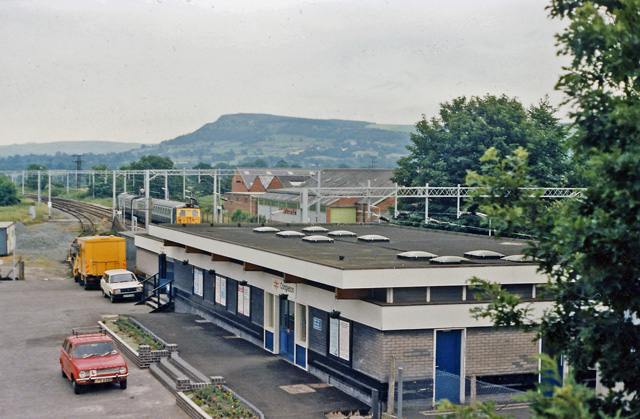 Congleton Station, View NE, towards Macclesfield and Manchester; ex-North Stafford Stoke-on-Trent - Macclesfield - Manchester main line. The Cloud (1,115 ft.) prominent in distance.